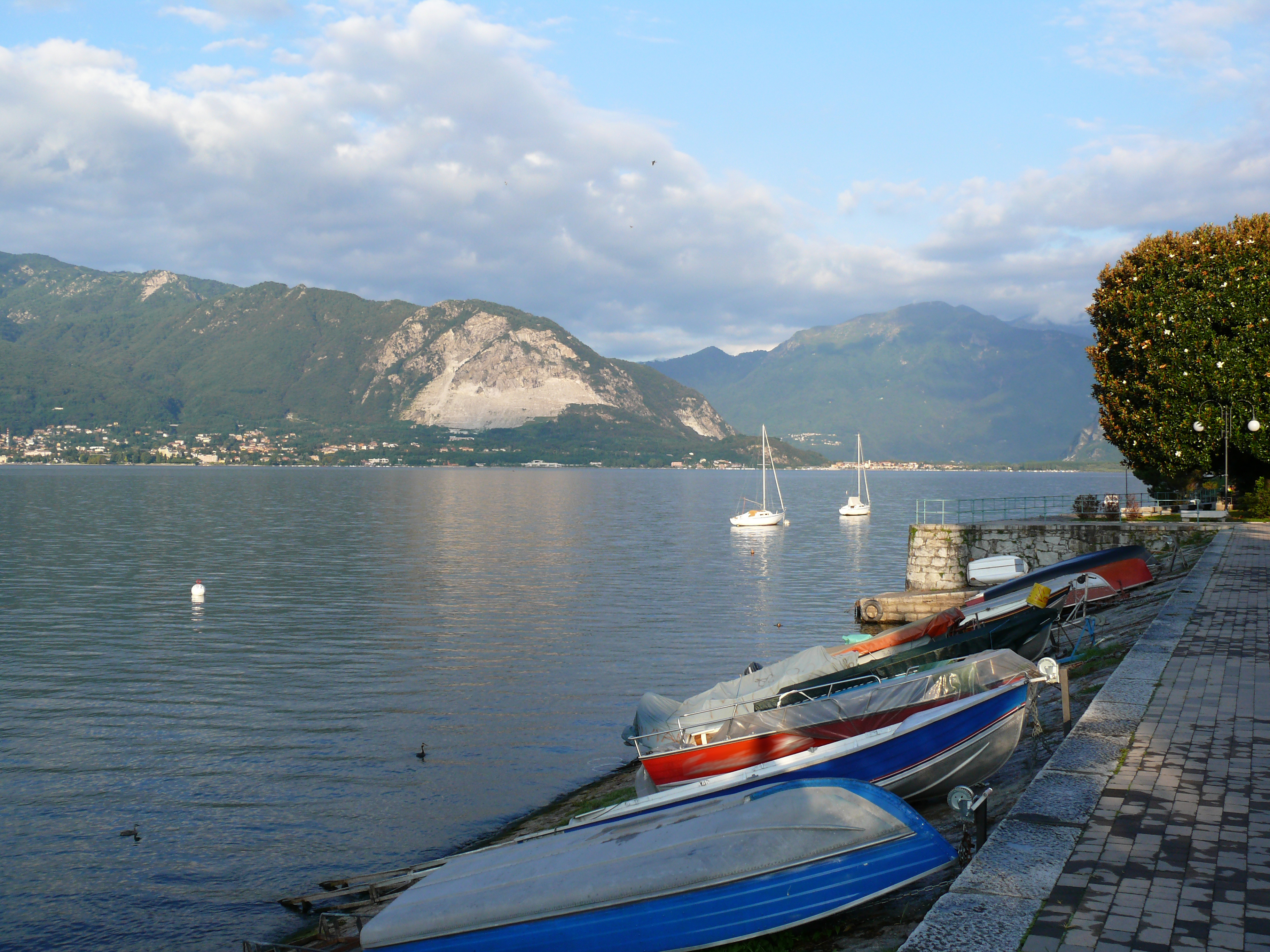 Lago Maggiore as seen from Verbania, Italy. Lake Maggiore (in